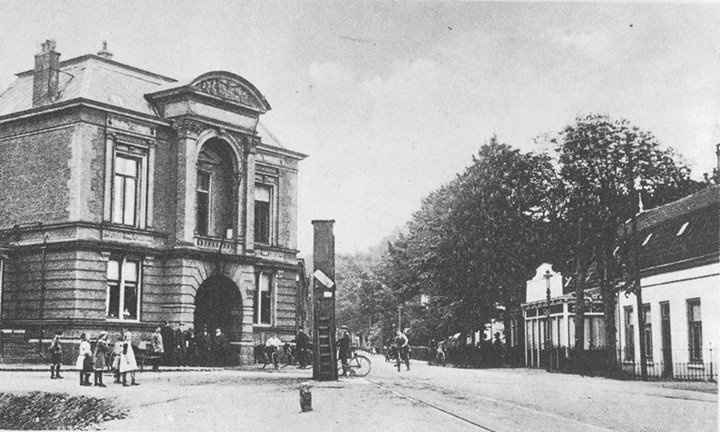 Tram garage Hillegom, ca 1900. Build 1881 - demolished 1933.